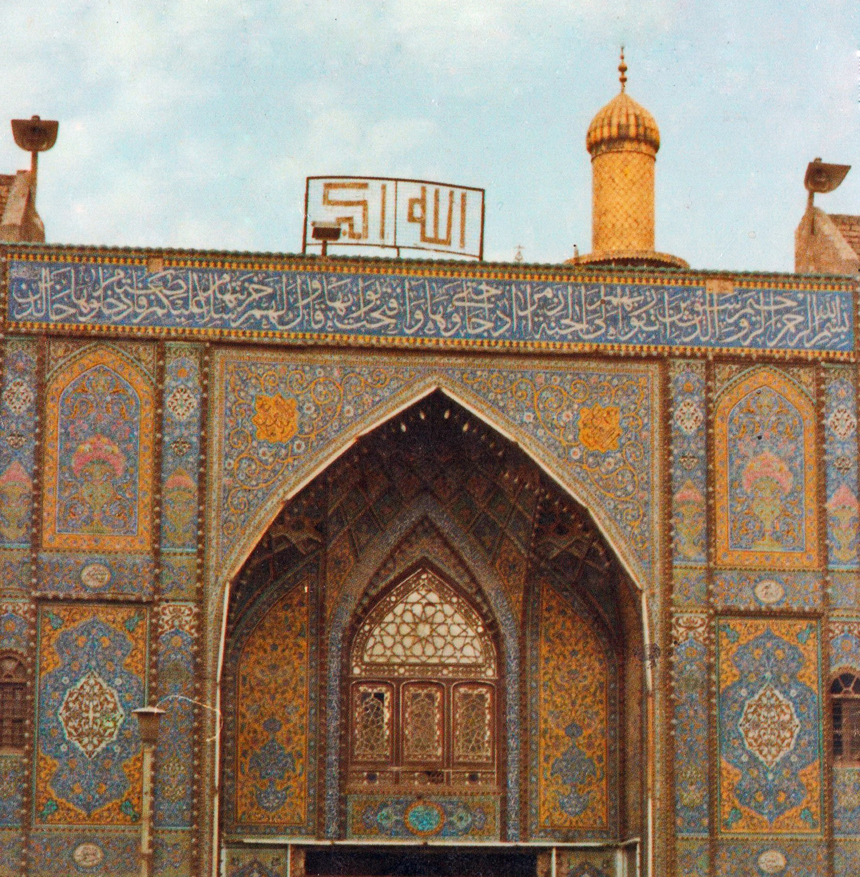 An Iwan of Imam Ali Mosque, Najaf in 1994 (picture derived and edttied from cover book of "Hawza of Najaf" by Mohammad al-Qarawi. 39:73 (Az-Zumar, Ayah 73) seen in the tilings of the Iwan (blue background).